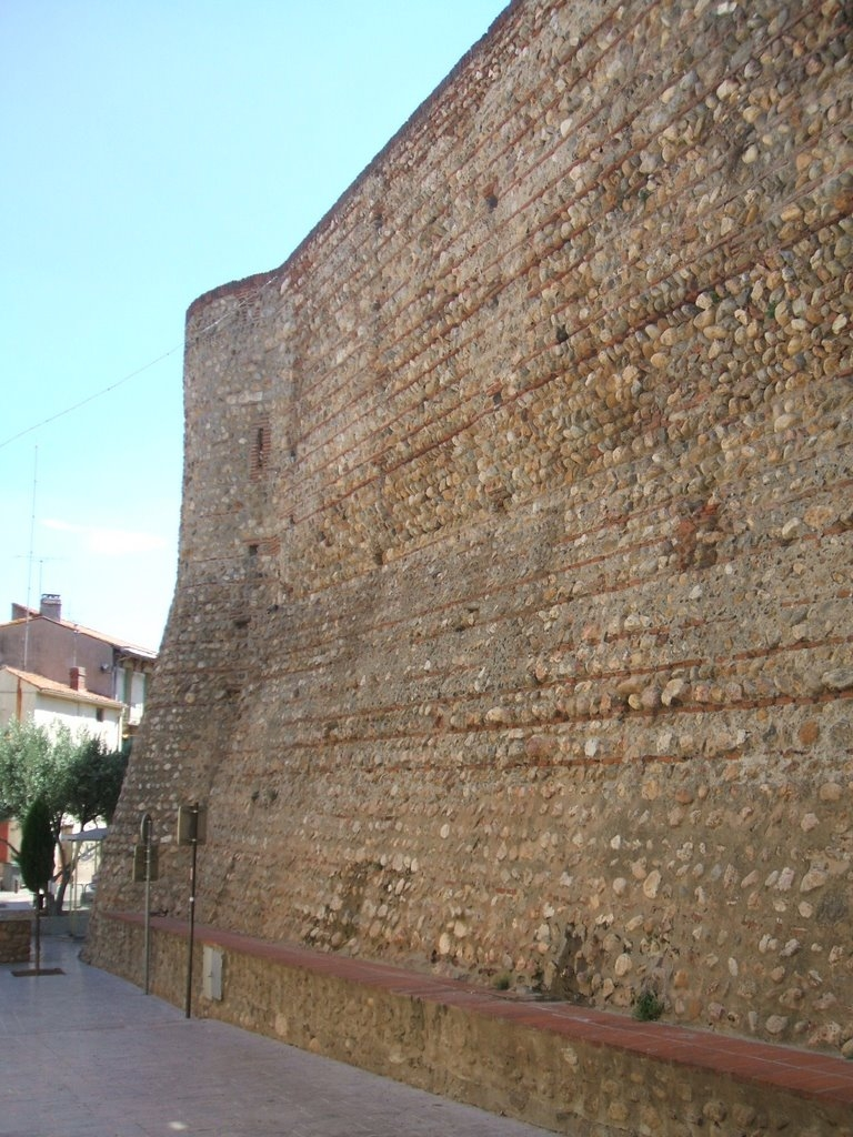 Elne : remains of the "ville haute" fortification walls, just by the cathedral chevet.